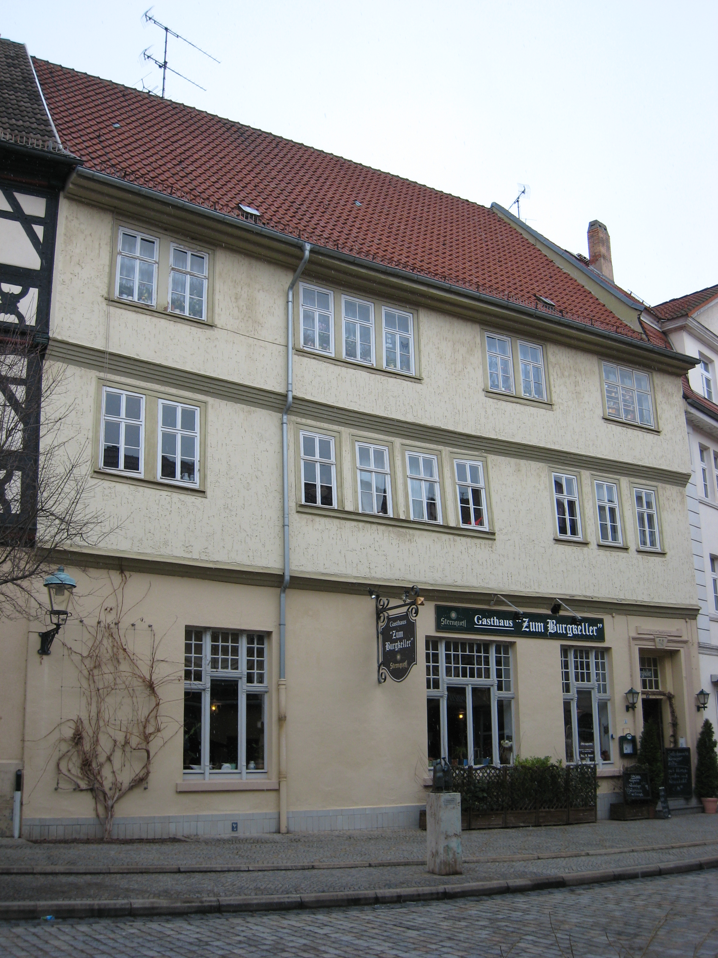 Arnstadt Erfurter Straße 12, restaurant Zum Burgkeller